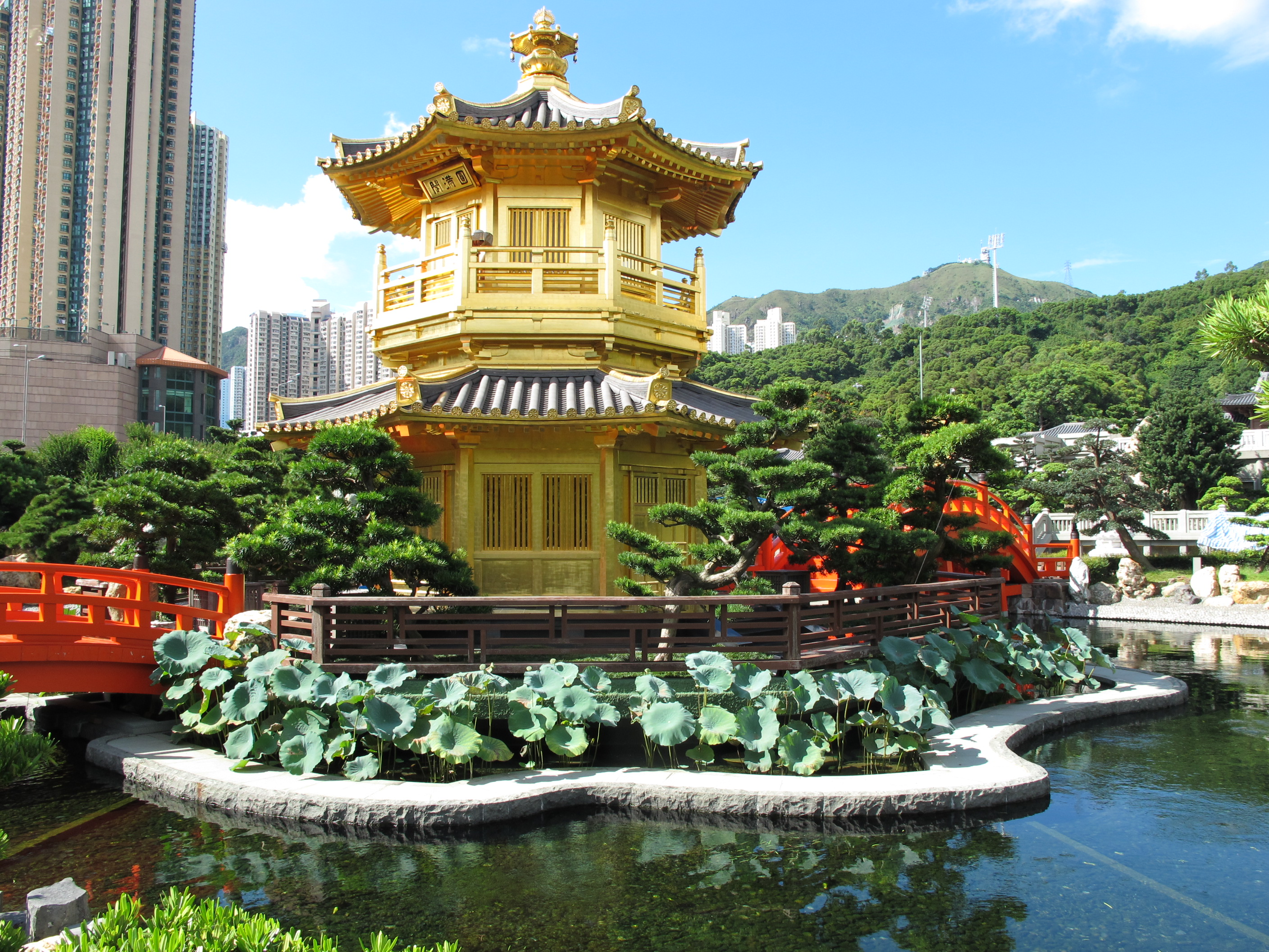 Nan Lian Garden Pavilion of Absolute of Perfection